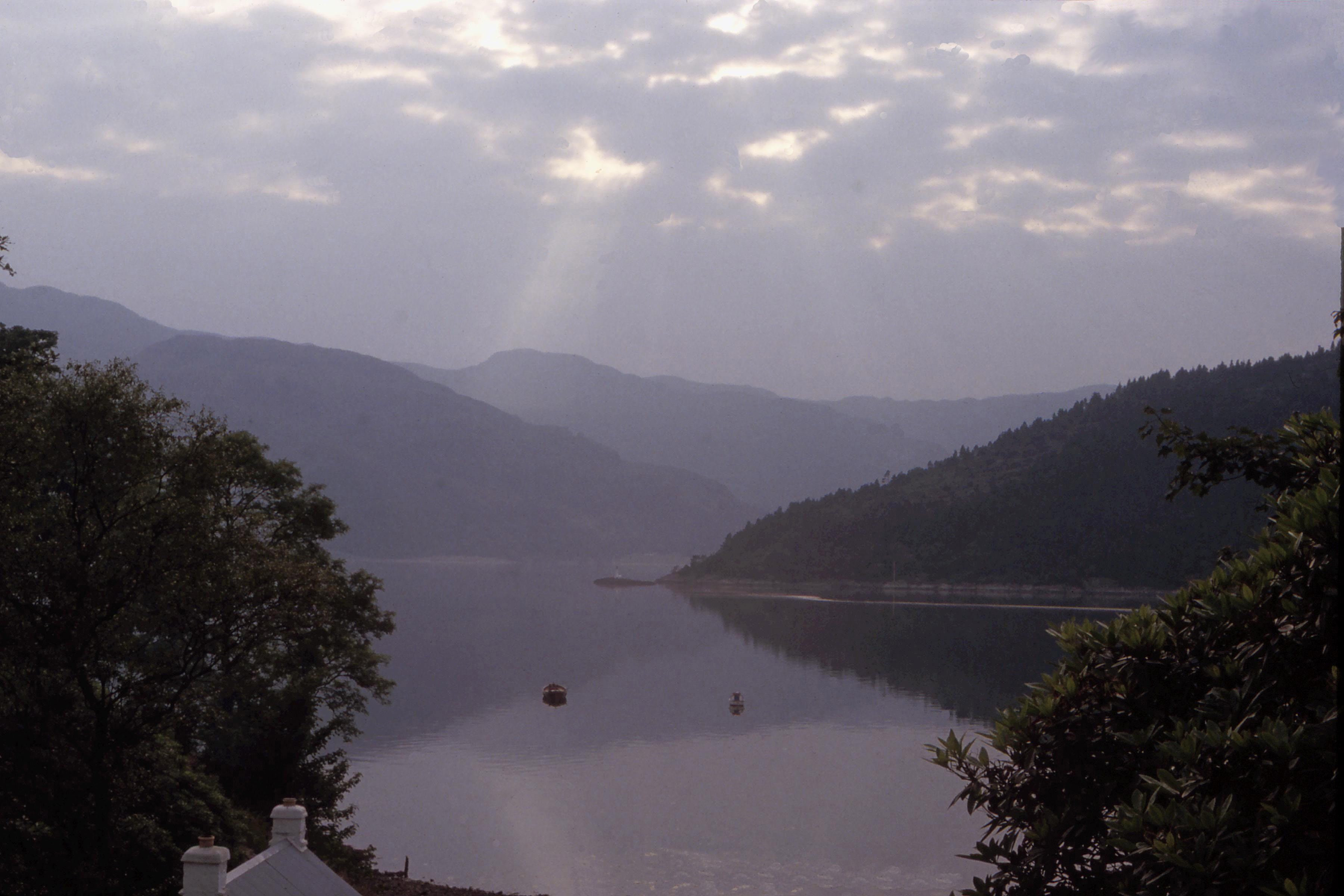 View west from Portincaple to Loch Goil, Loch Long in foreground, 1981